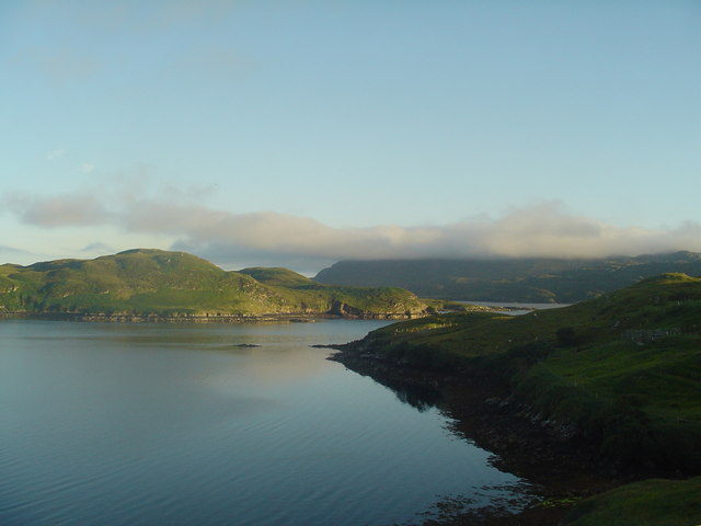 Eilean Liubhaird, Outer Hebrides of Scotland. A stunning view from the road end at Aird a' Chaolais looking across the sea loch to Eilean Liubhard.